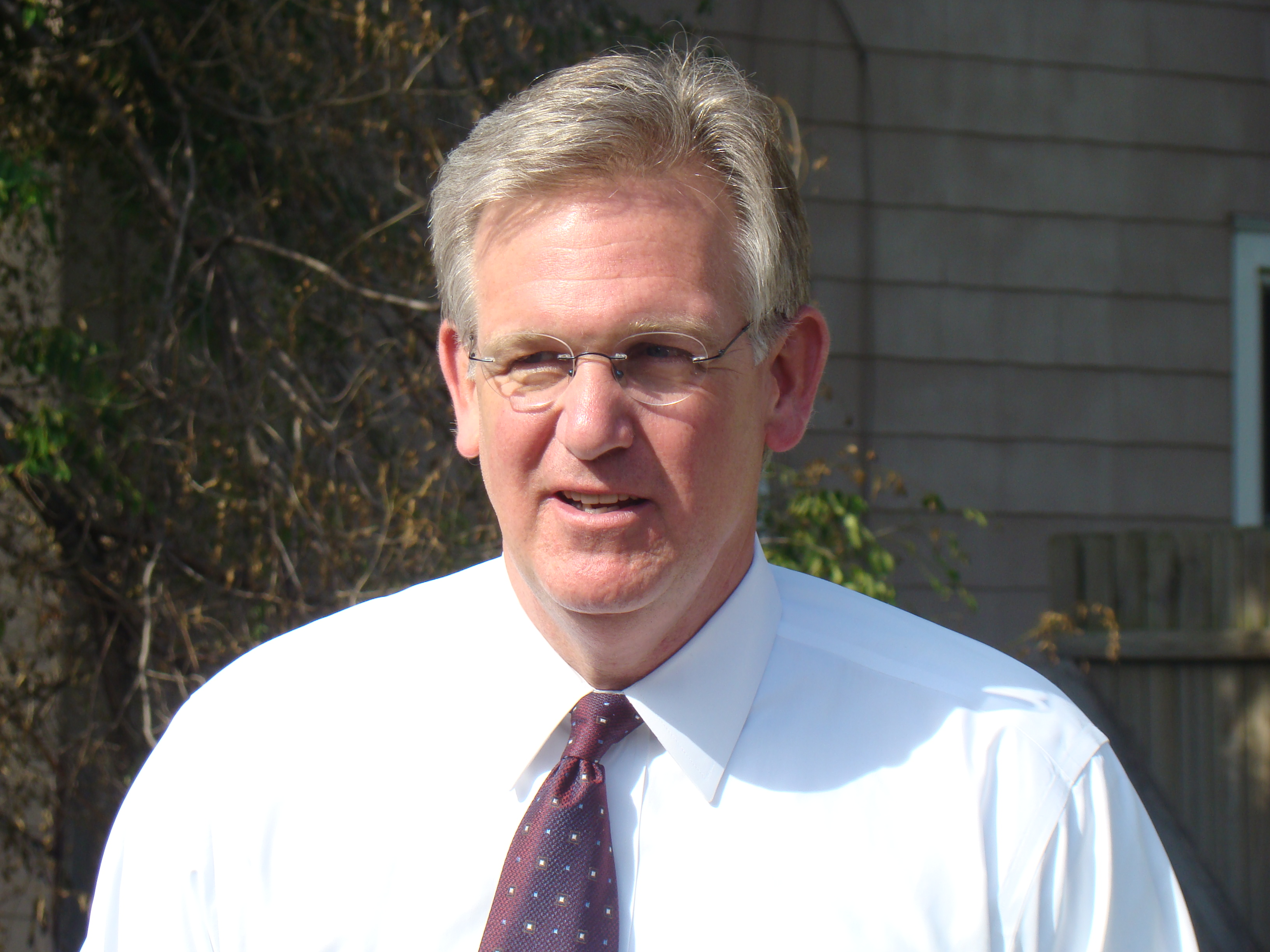 AFL-CIO endorsed candidate for MO Governor and residing Attorney General went door to door talking about health care with Working America in St. Joseph, MO.